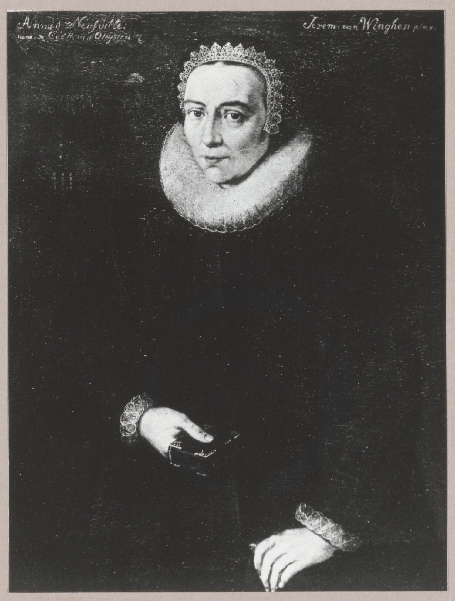 Wife of Sebastiaan de Neufville (1545-1609)